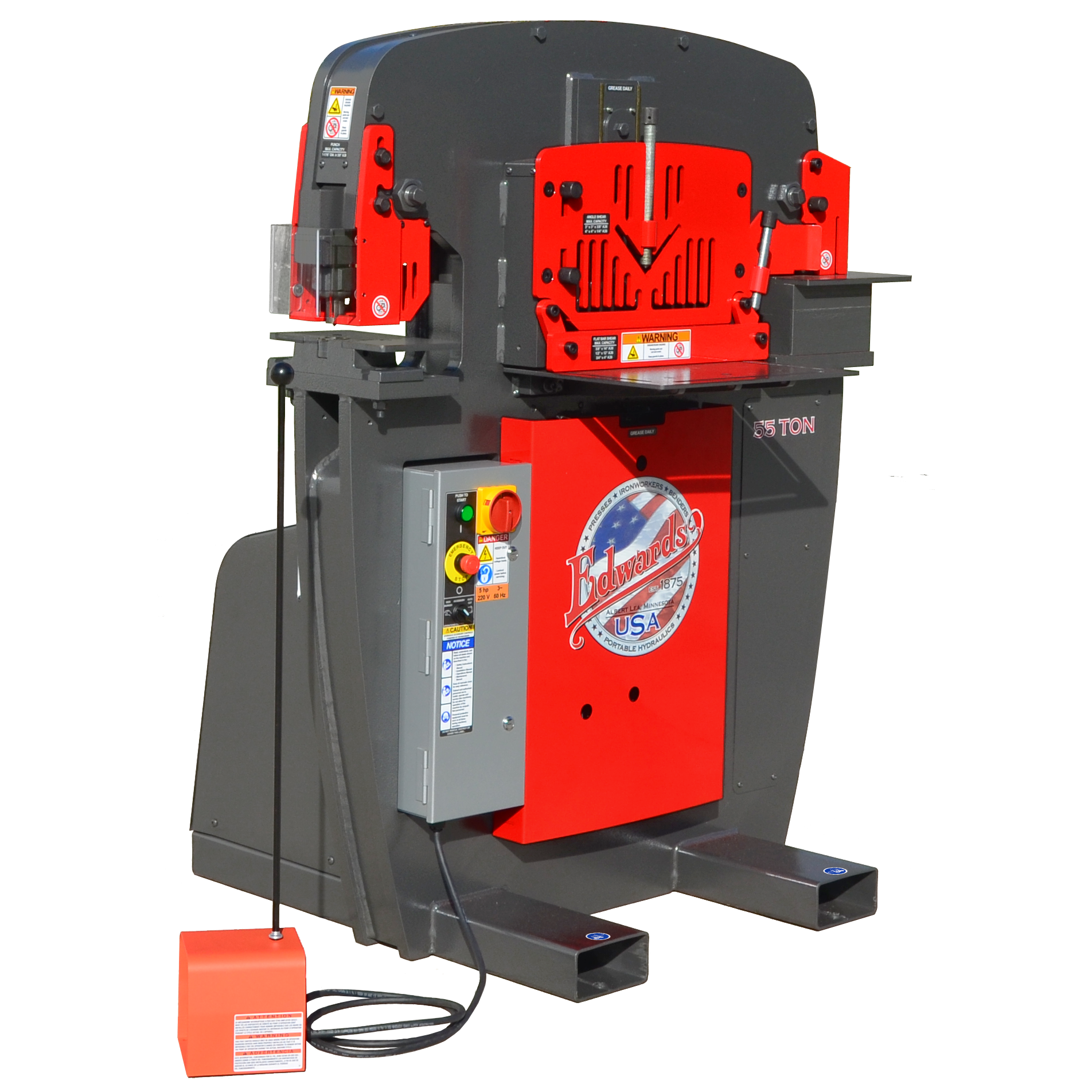 Edwards 55 Ton Ironworker Shown with Coper Ntocher